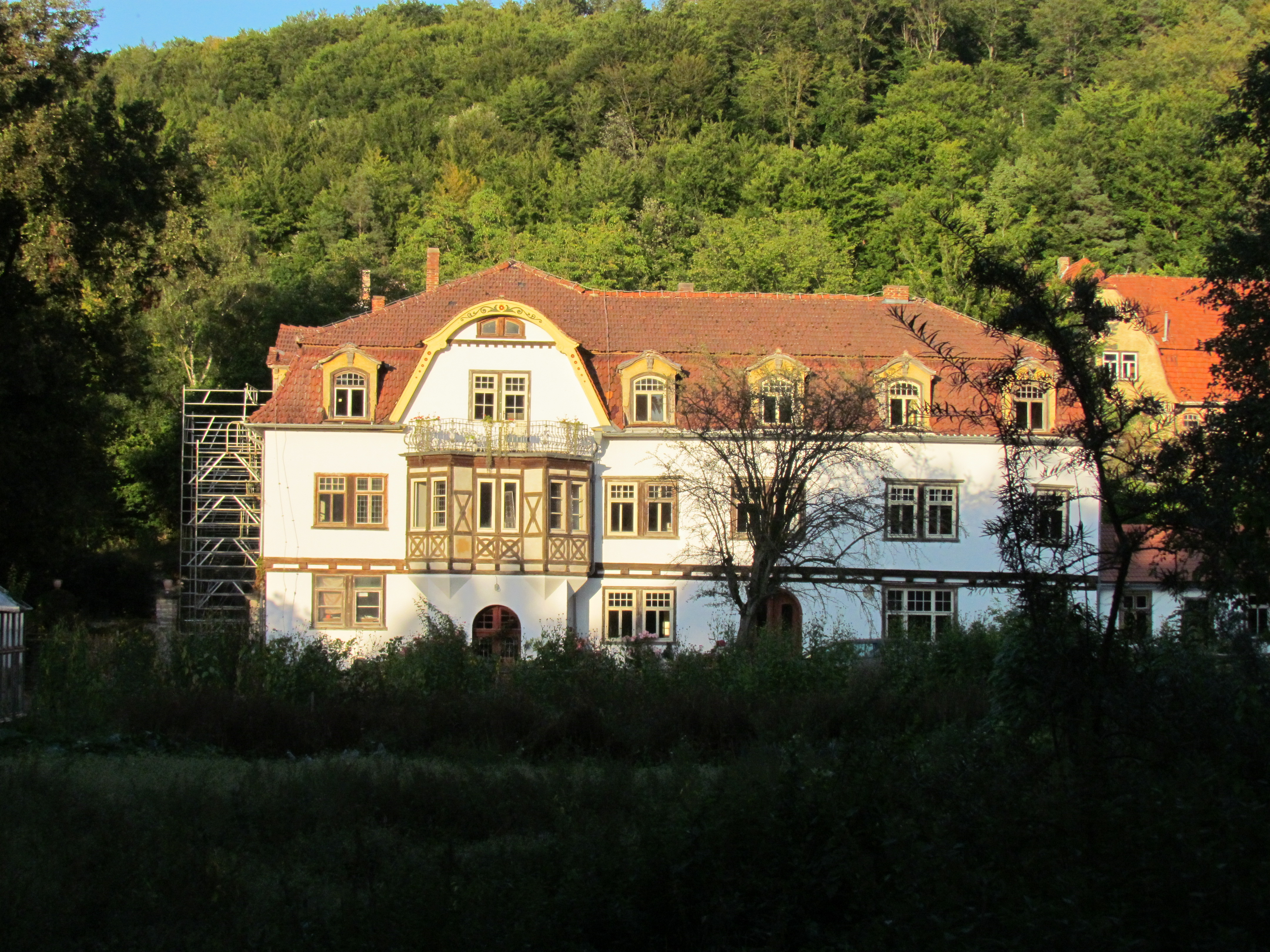 manor amalienruh near suelzfeld in Germany